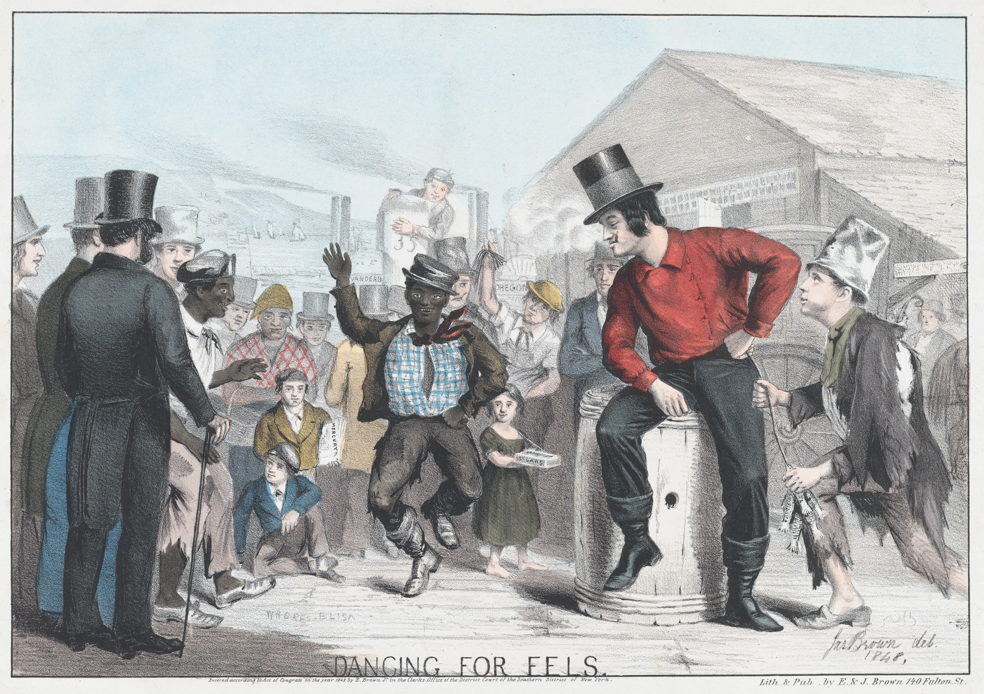 Print; Prints